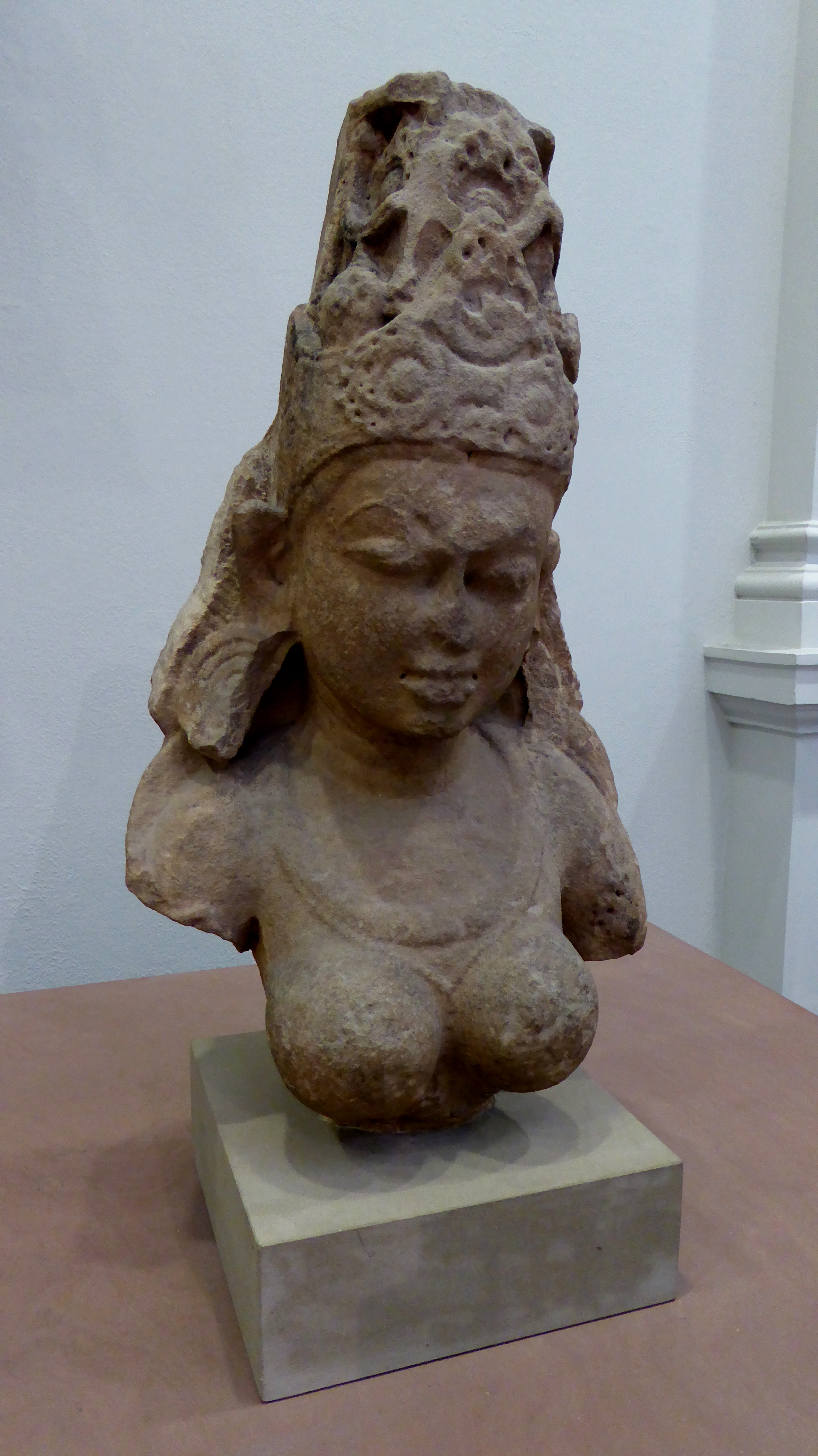 A sandstone statue of a yogini from somewhere in Madhya Pradesh. Dated to the Pratihara period (800 to 900 CE). Now on display at the Victoria and Albert Museum in West London (Museum number IS.9-1969).